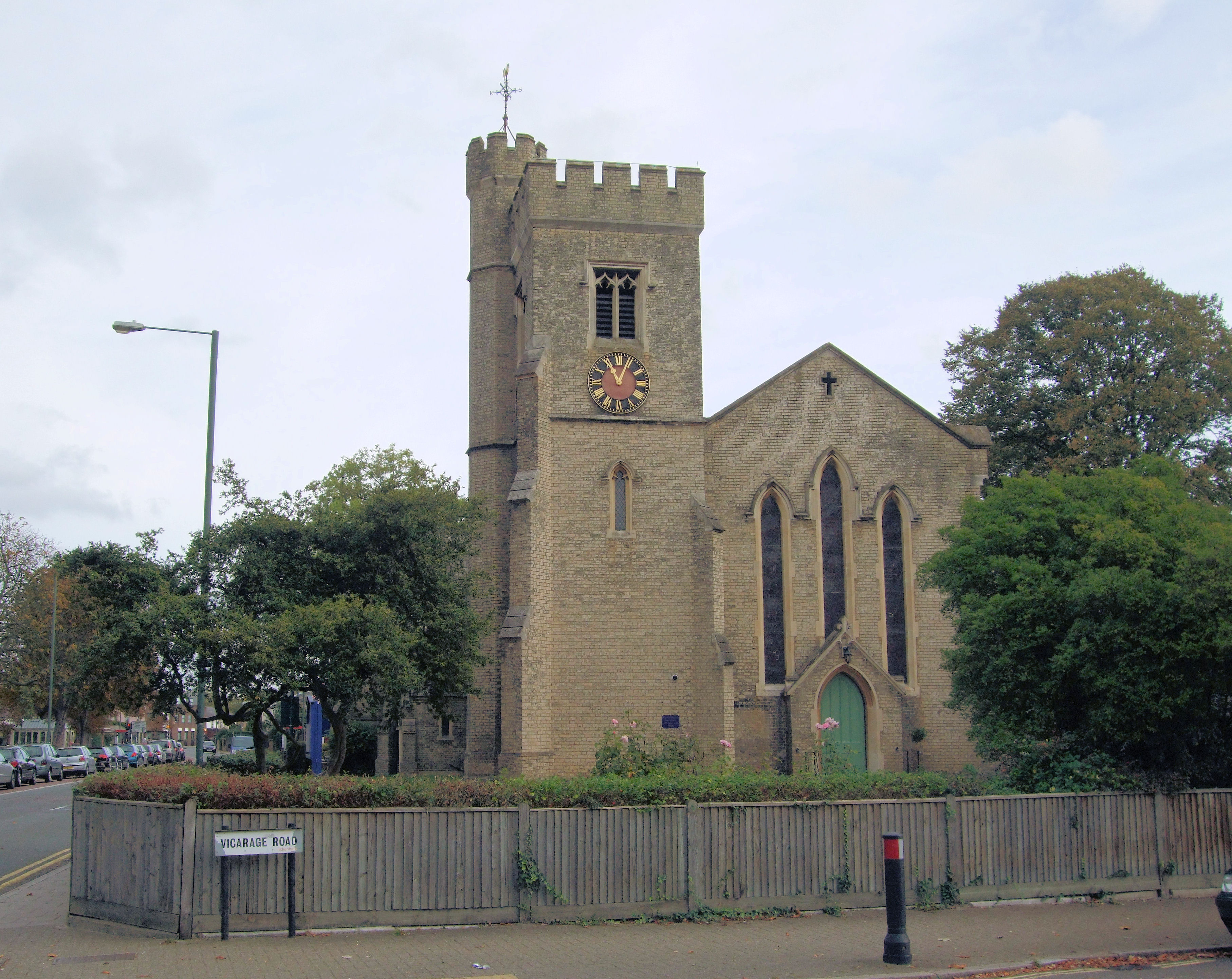 Holy Trinity parish church, the Green, Twickenham, Middlesex, seen from the southwest